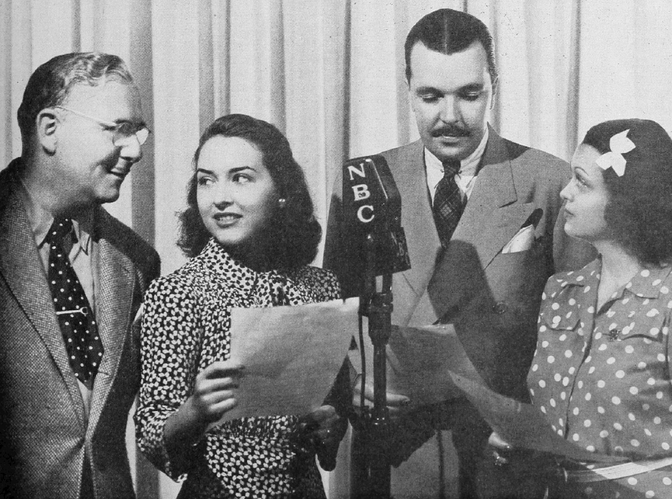 Cast of the radio program Life Can Be Beautiful in October 1940. From left: Ralph Locke ("Papa David" Solomon), Mitzi Gould (Rita), John Holbrook (Stephen Hamilton), Alice Reinhardt ("Chichi" Conrad). A search for renewal was done in publications for the years 1967 and 1968. There were no listings for the title Radio Varieties. There's no evidence of renewal for the magazine.